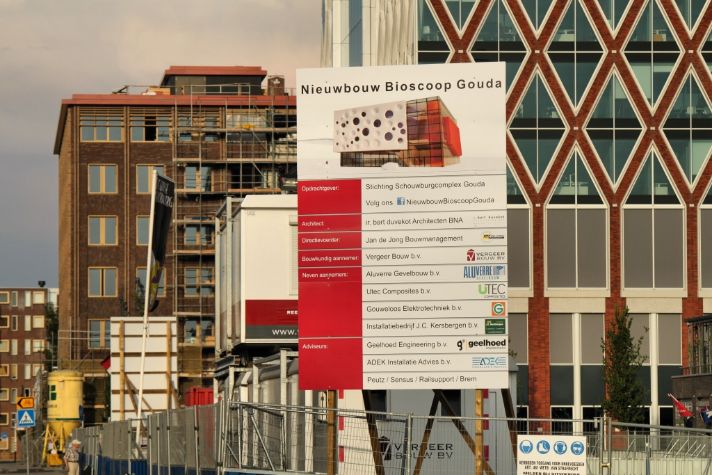 Development of the "Spoorzone" area in the Dutch city of Gouda